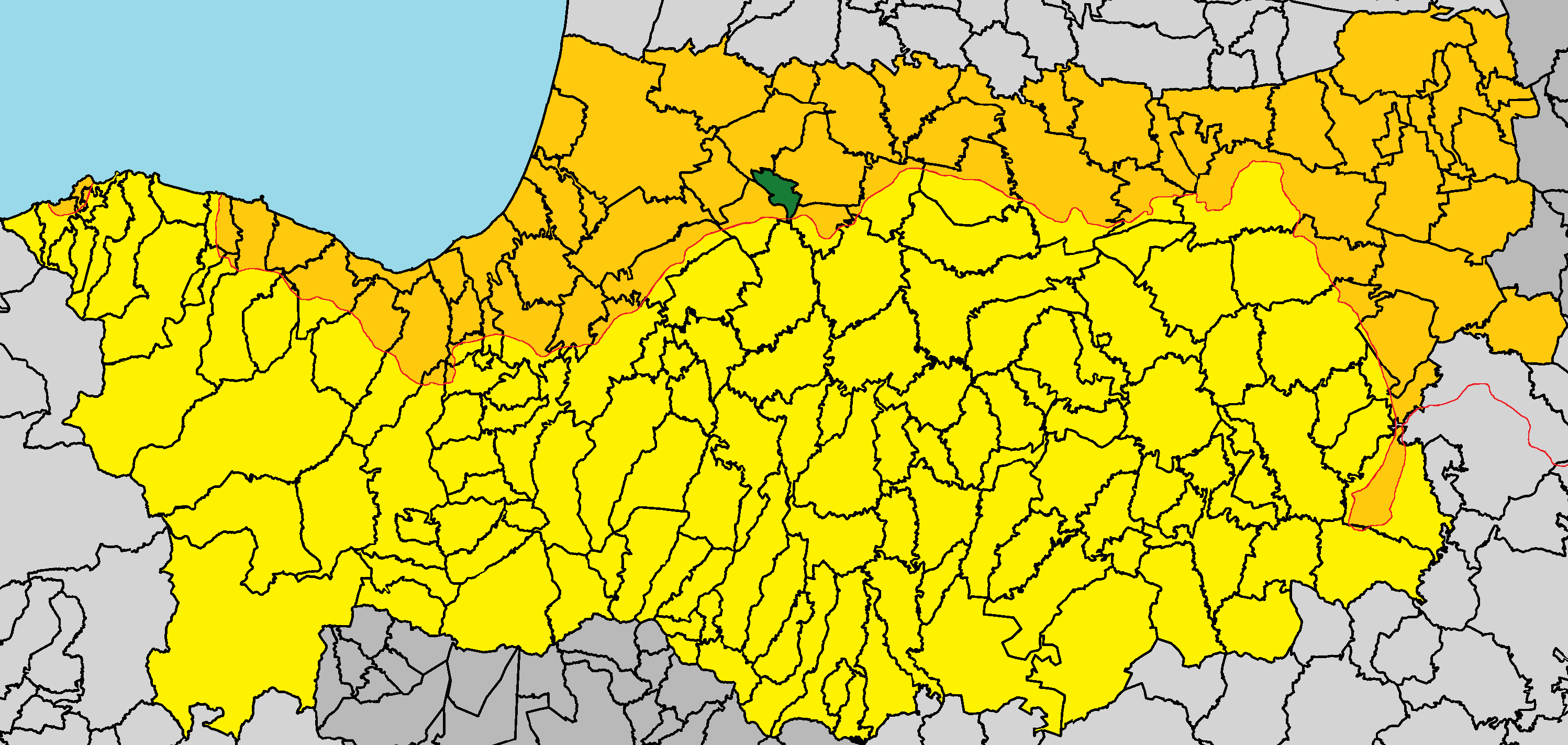 Masari in Nicosia District (de jure).